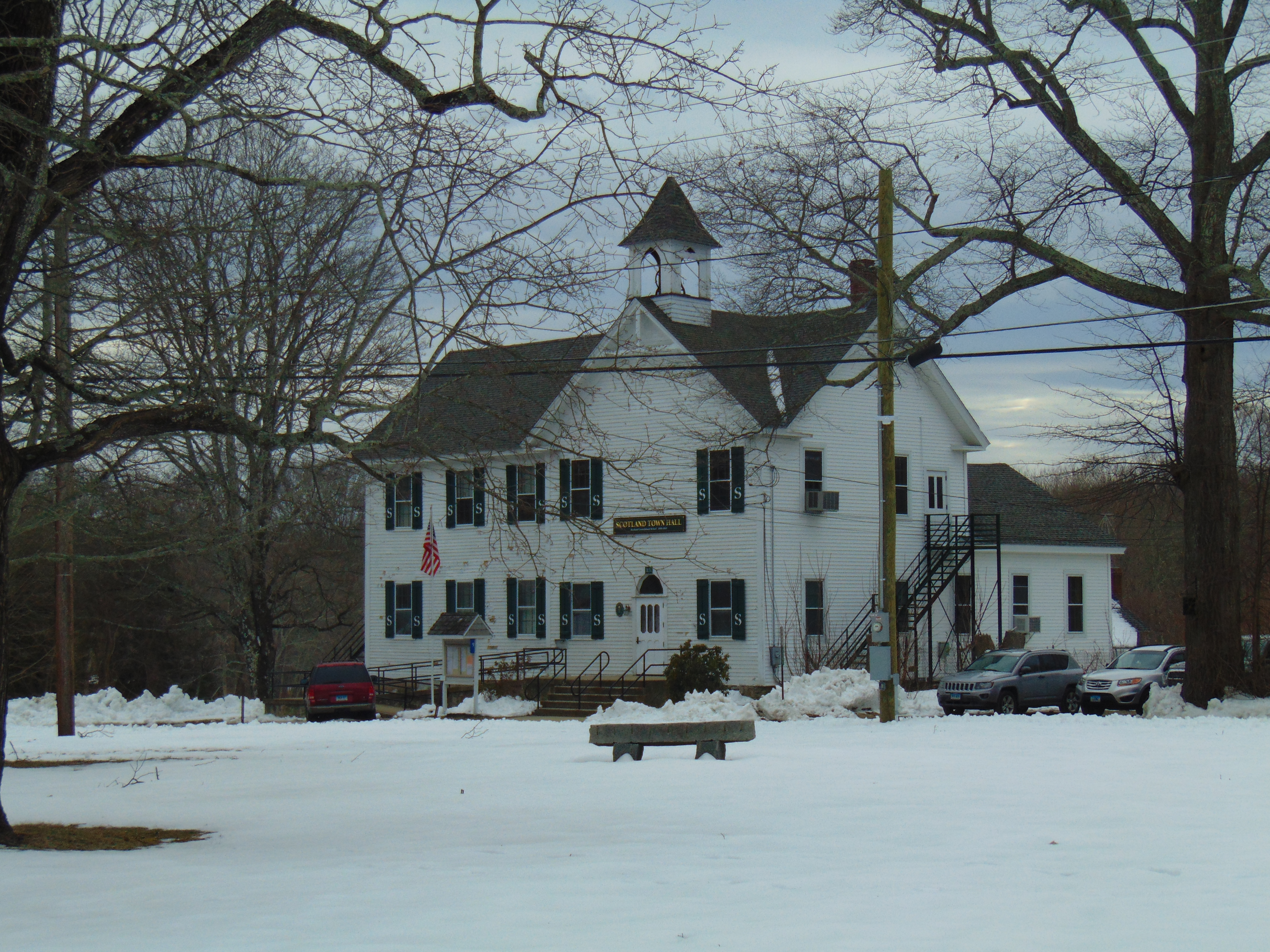 A photo of the Scotland, CT Town Hall